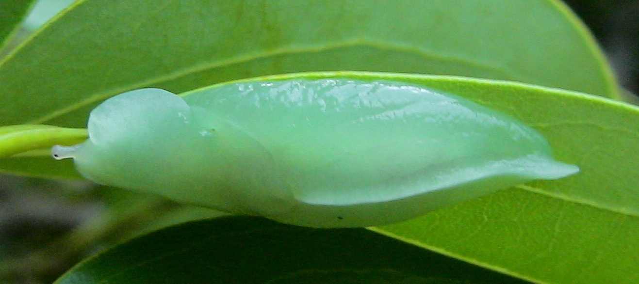 A slug photographed in a wood in Mayotte (Grand Terre)